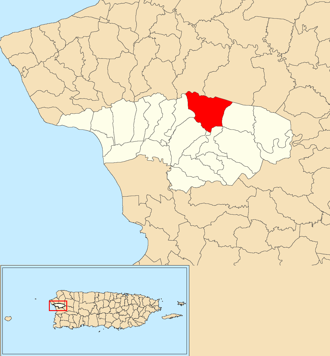 Humatas, Añasco, Puerto Rico locator map